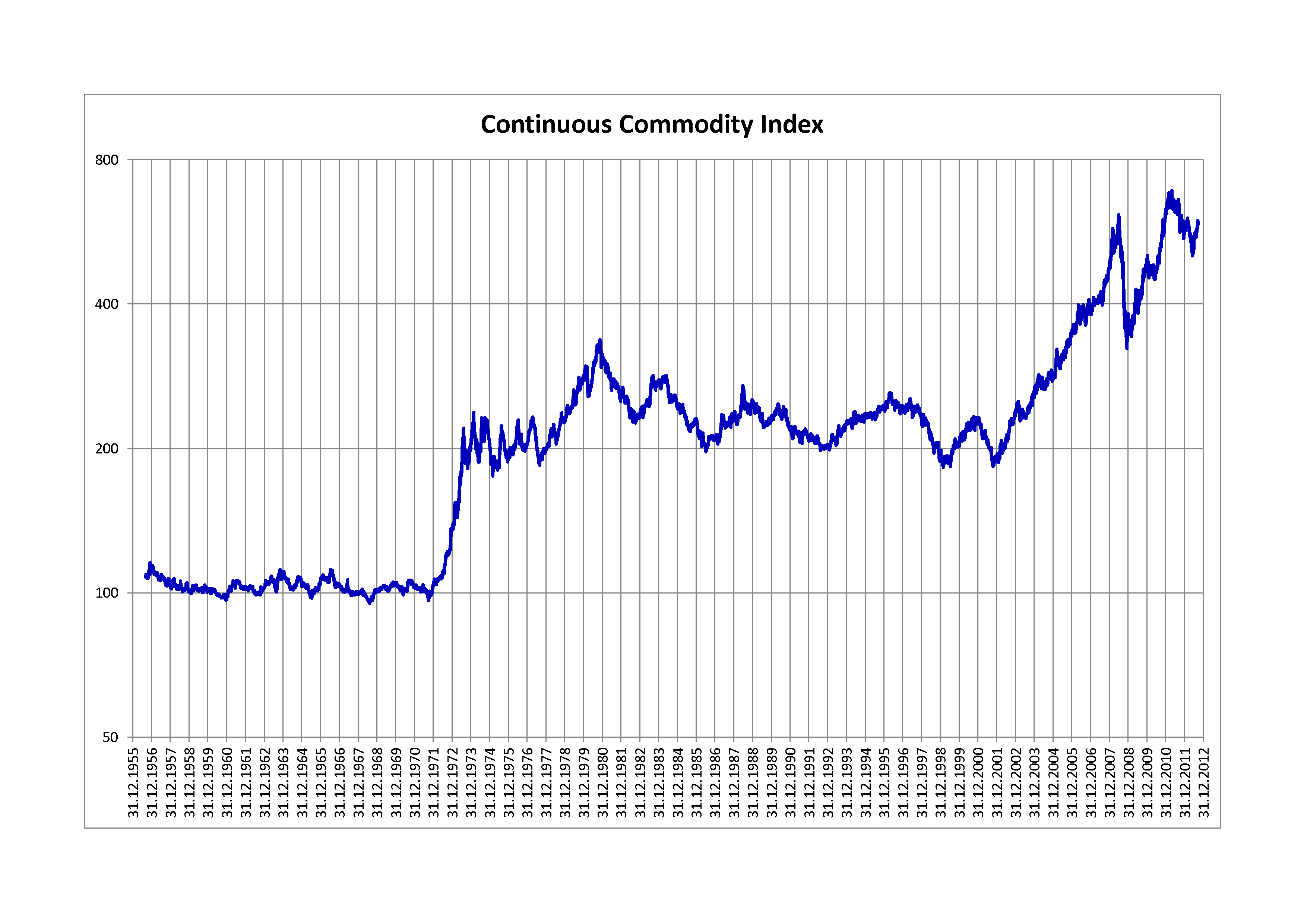 Continuous Commodity Index ("Old CRB Index") from September 1956 to September 2012 (daily closings)